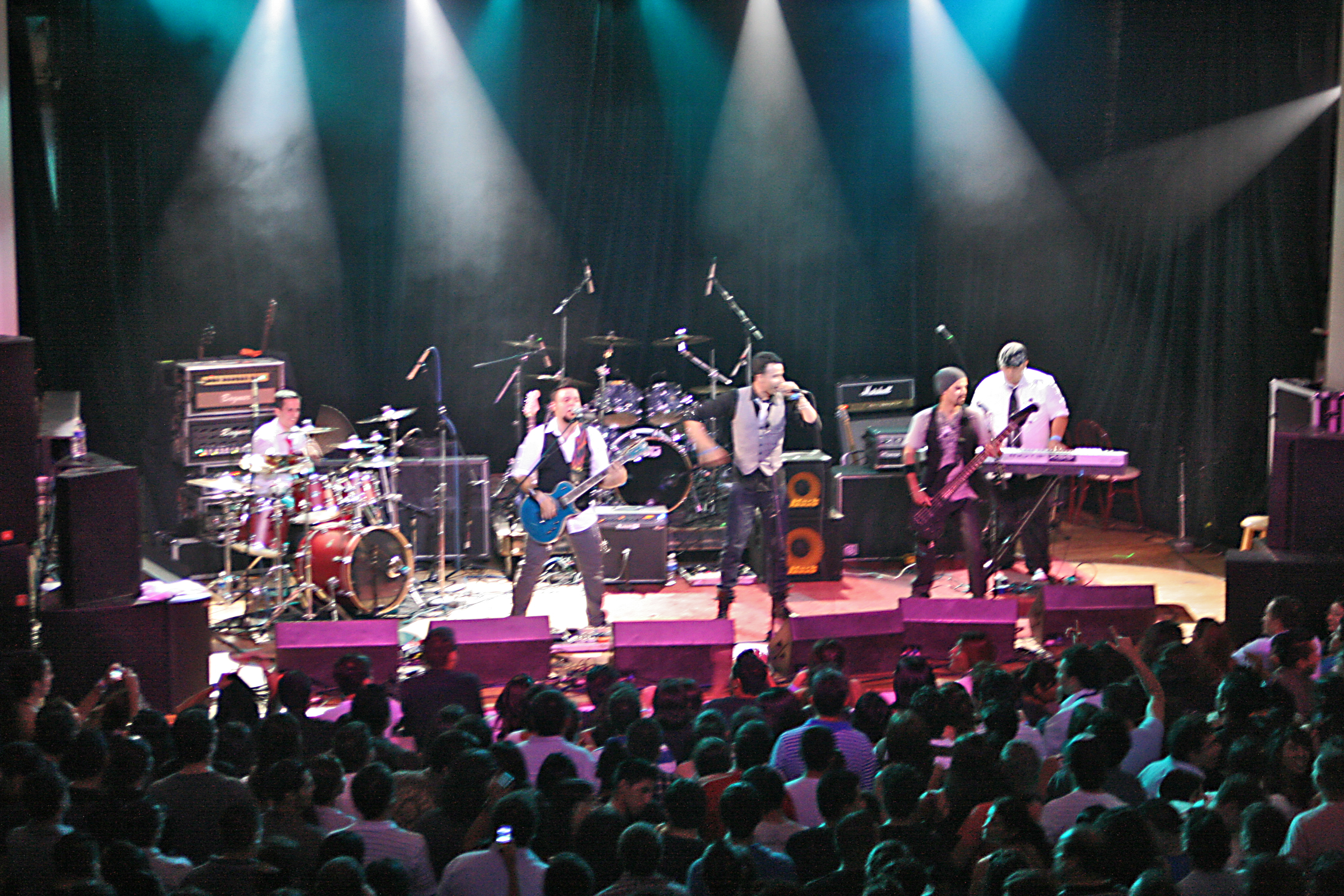 Ocho